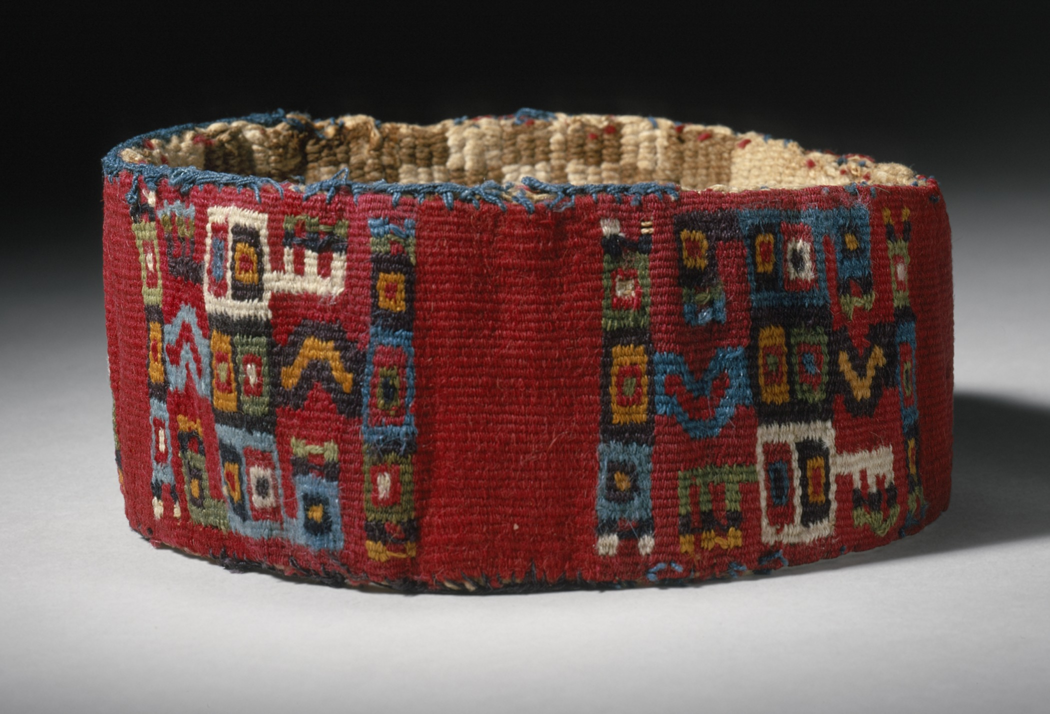 Peru, South Coast, Wari, 600-850 Costumes; Accessories Camelid fiber and cotton; interlocked tapestry weave Height: 2 3/4 in. (6.985 cm); Diameter: 6 in. (15.24 cm) Costume Council Fund (M.74.151.17) Costume and Textiles